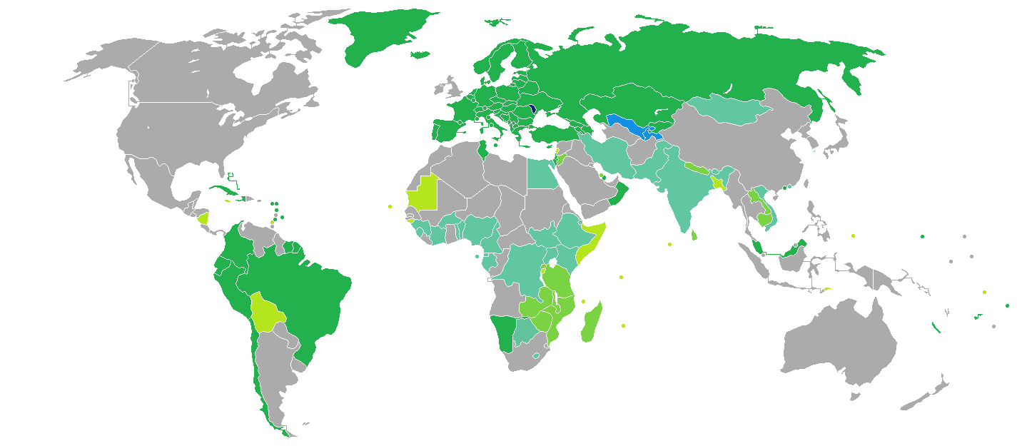 Map of visa-free and visa-on-arrival countries for Moldovian passport holders Category:Visa requirements by nationality Moldova Visa free access Visa on arrival eVisa Visa available both on arrival or online Visa required